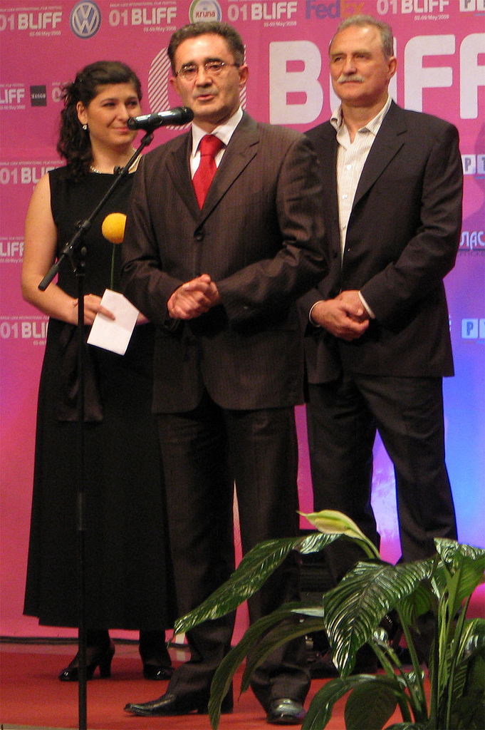 Banja Luka Film Festival: Irena Taskovski, director of the festival; Anton Kasipovic, minister of culture; Lazar Ristovski, actor, president of jury.